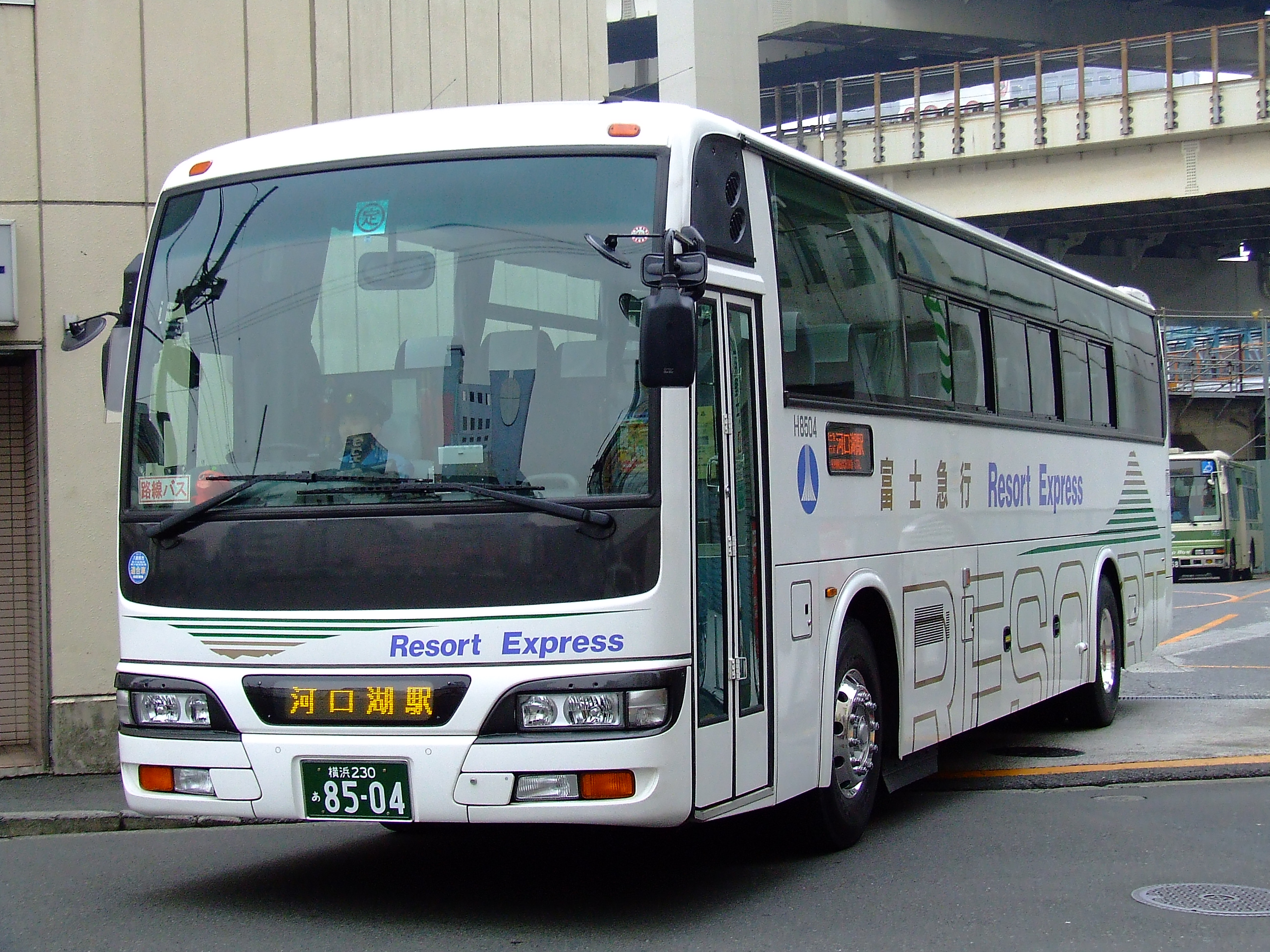 Highway bus "Lake Liner" service operated by Fuji Express at Sotetsu Highway Bus Center